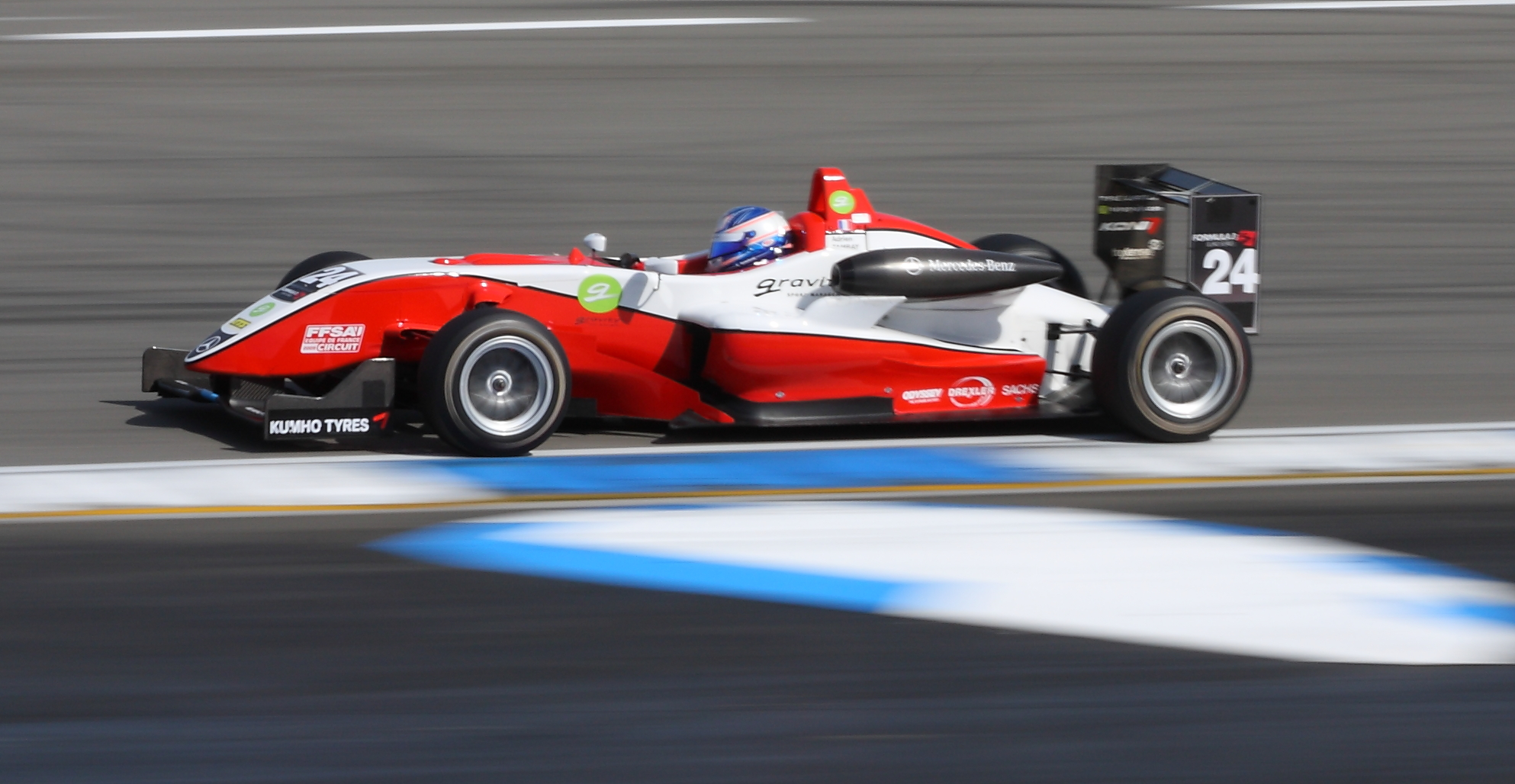 F3 Euroseries Tambay